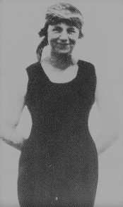 Image depicts one of the two (separate) Crumbles murders victims. Subject depicted was murdered in April 1924.